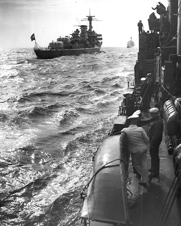 The German light cruiser Leipzig photographed from a German torpedo boat during a naval parade, circa August 1934.